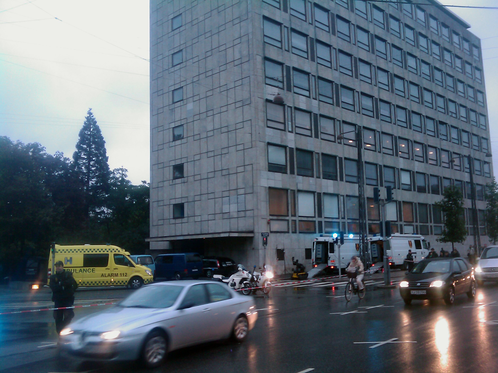 Hotel Jørgensen bomb case - a EOD robot (known as "rullemarie" in Danish) being remote controlled from the nearby white vehicle at the intersection of Nørre Farimagsgade and H.C. Andersens Boulevard in Copenhagen, Denmark, next to the west entrance of Ørstedsparken, where a bomb suspect is being detained by the police in relation to the bomb explosion at Hotel Jørgensen on September 10 2010.